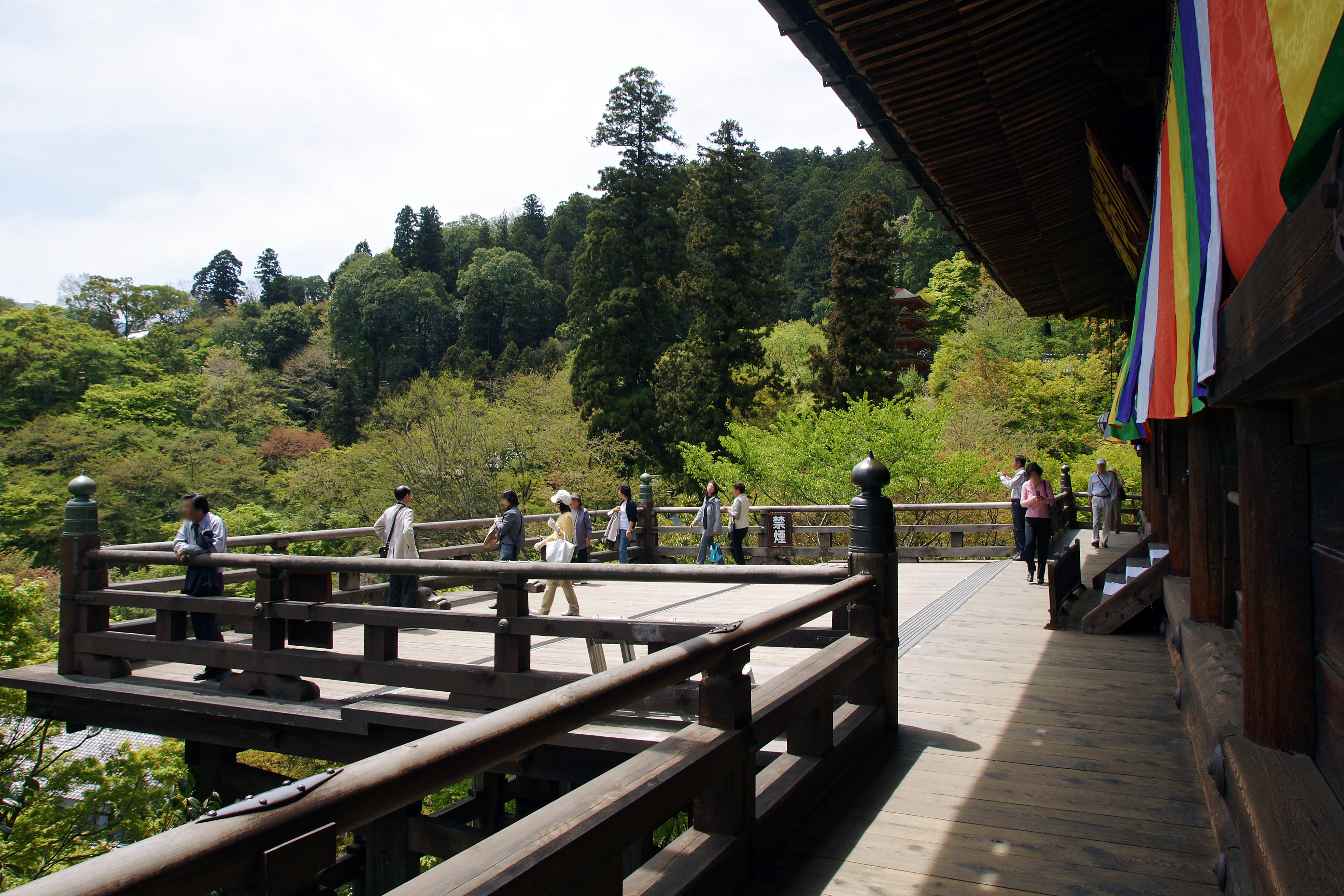 Hondo of Hasedera Buddhist temple (Japan's national treasure), Sakurai, Nara prefecture, Japan